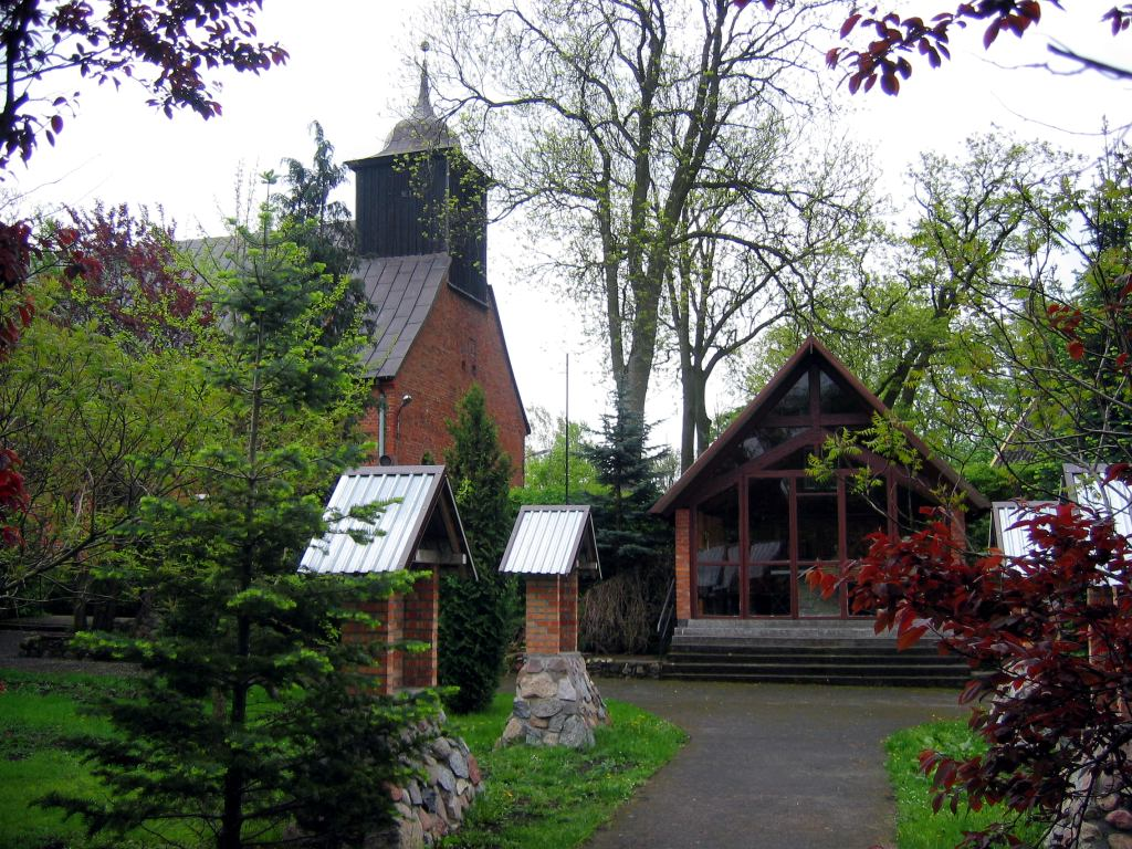 Church in Trąbki Wielkie build in XIII century, near Gdańsk